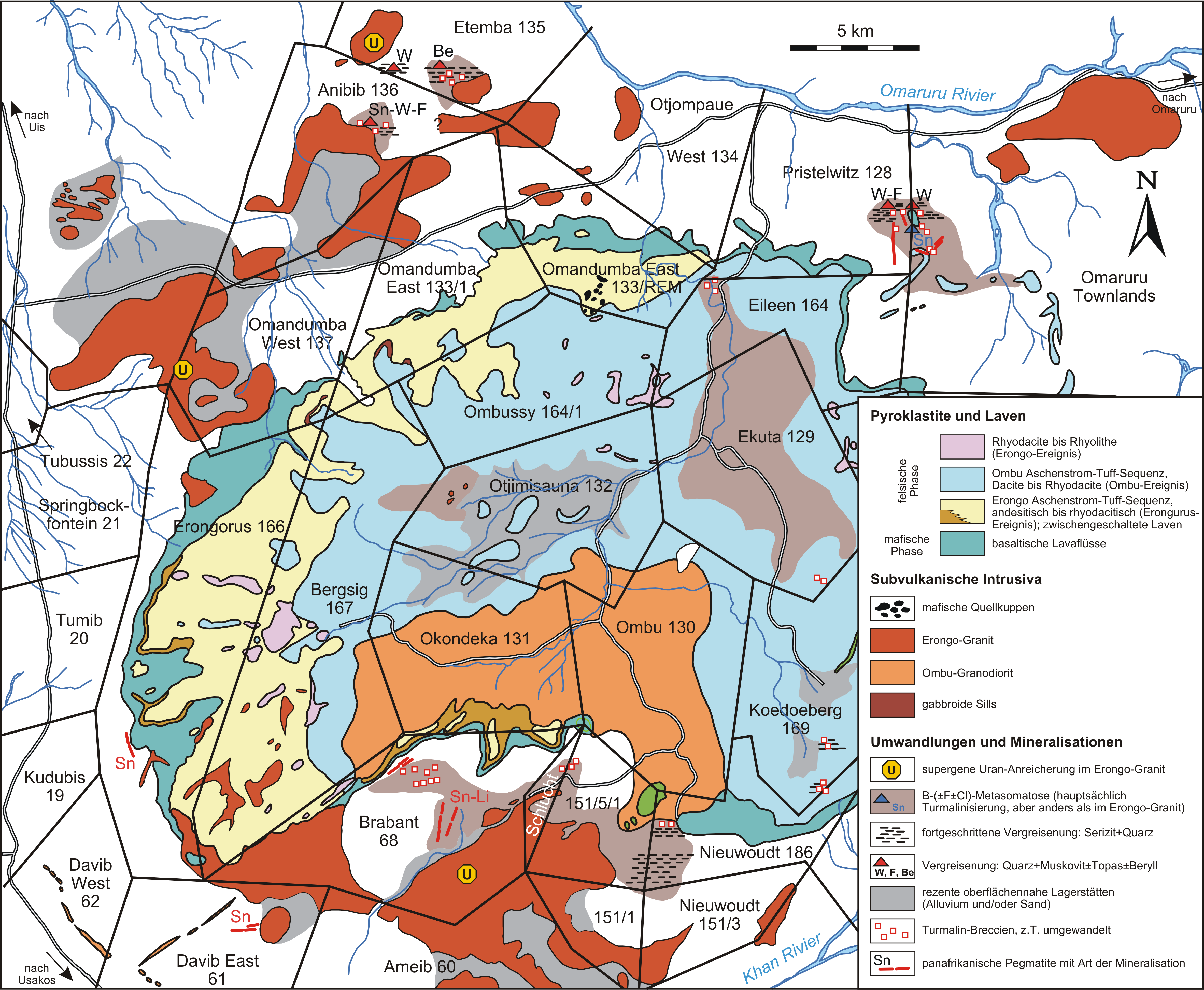 Geological map of Erongo volcanic complex. Newly created on the basic of Franco Pirajno: Geology, geochemistry and mineralisation of the Erongo Volcanic Complex. Namibia. In: South African Journal of Geology, Band 93, Nummer 3, 1990, S. 485–504